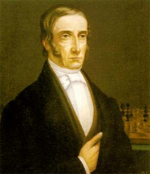 portrait of chessplayer Ignazio Calvi (1797-1892)